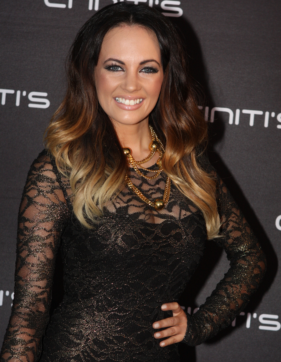 Samantha Jade at the Criniti's 10th birthday - Darling Harbour, Sydney, Australia 2013.